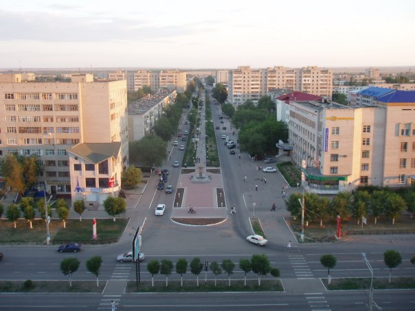 Aktobe